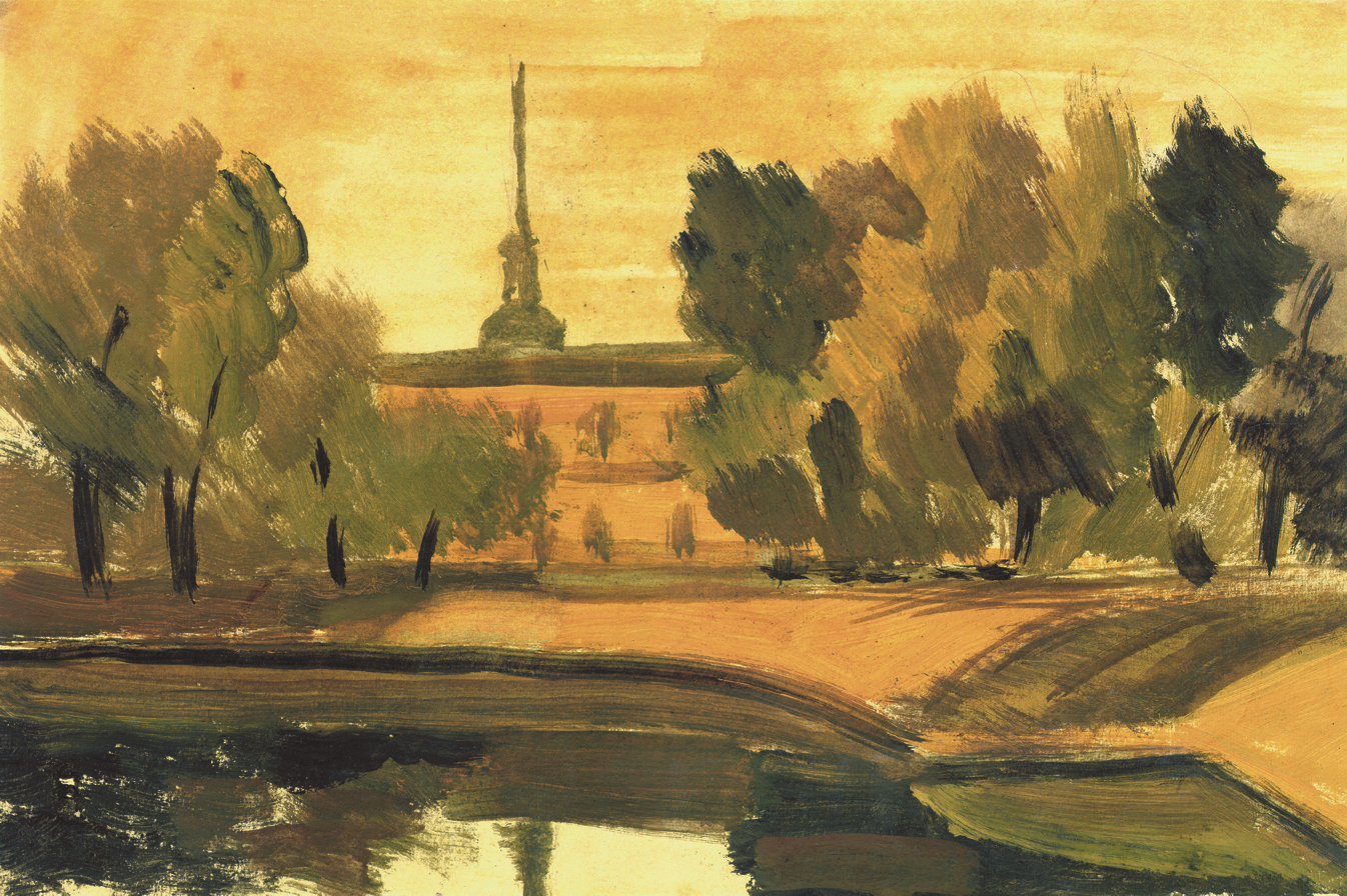 Mikhail Schultz. Ingineerniy Zamok 2. Tempera. 1960-th